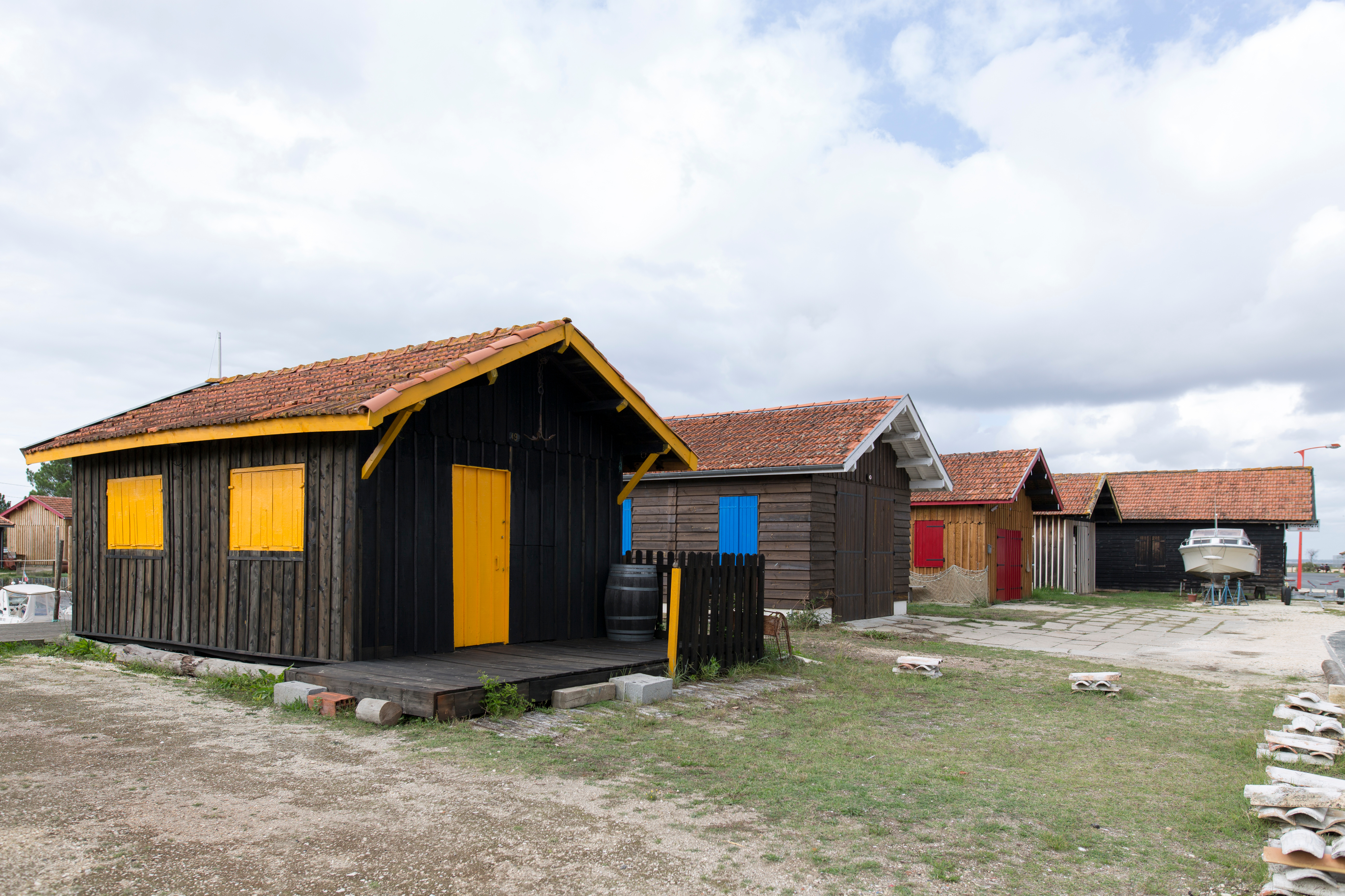 Port de la Hume